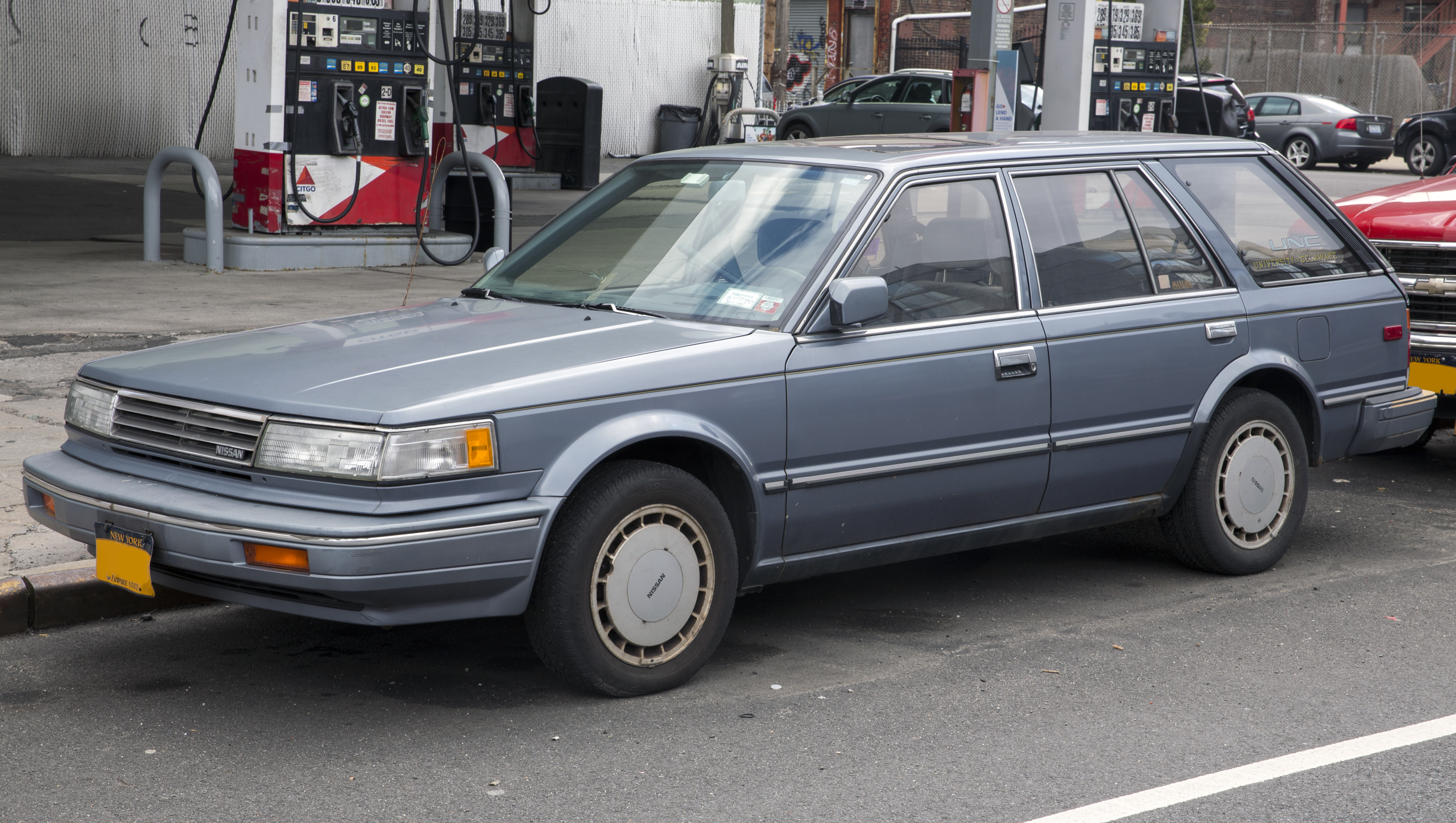 A 1988 Nissan Maxima GXE Wagon in Long Island City, Queens.